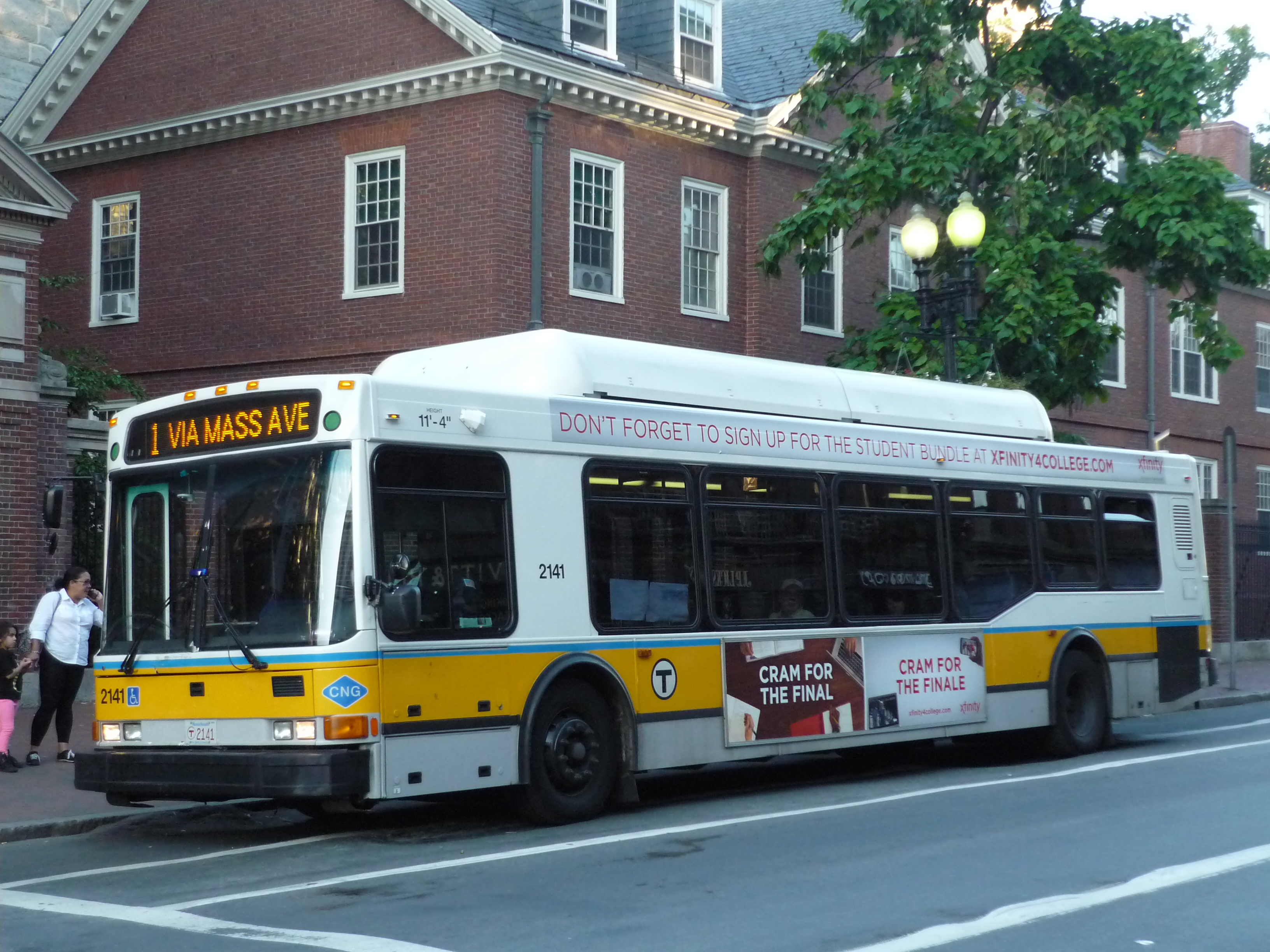 A NABI 40-LFW on the #1 route on Mass Ave at Holyoke Gate near Harvard Square in September 2014